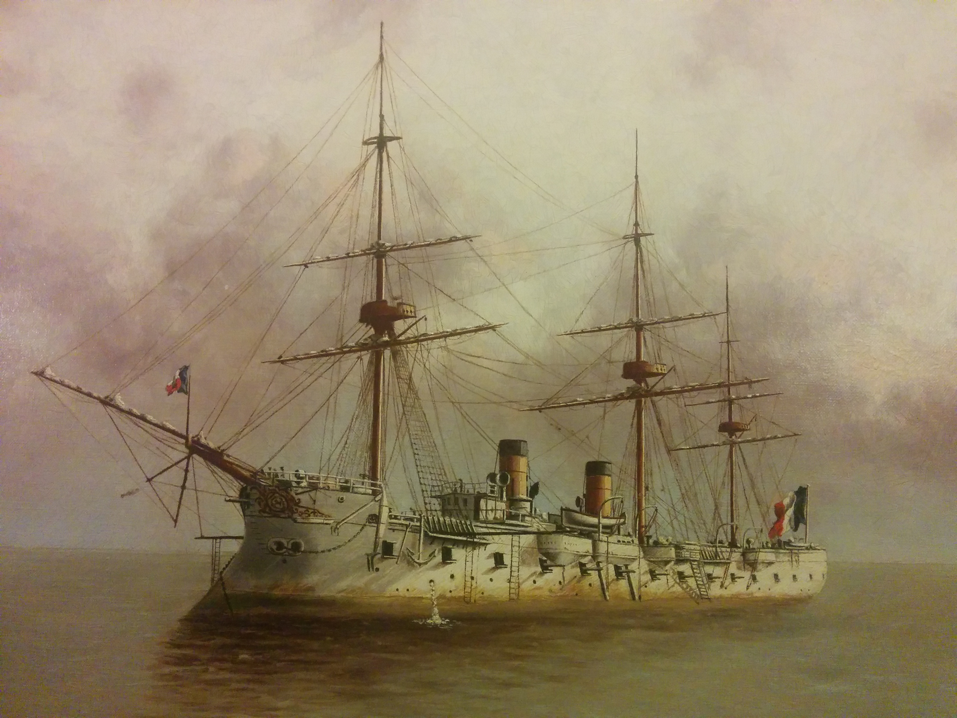 Detail of "The Duquesne", painting of the twenty-one gun French ironclad cruiser, by Henry E. Traumer, on display at the Duquesne Club, Pittsburgh, Pennsylvania.